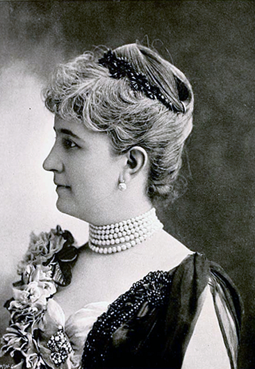 An enhanced version of the Bertha Palmer image used in the Isabella Quarter article